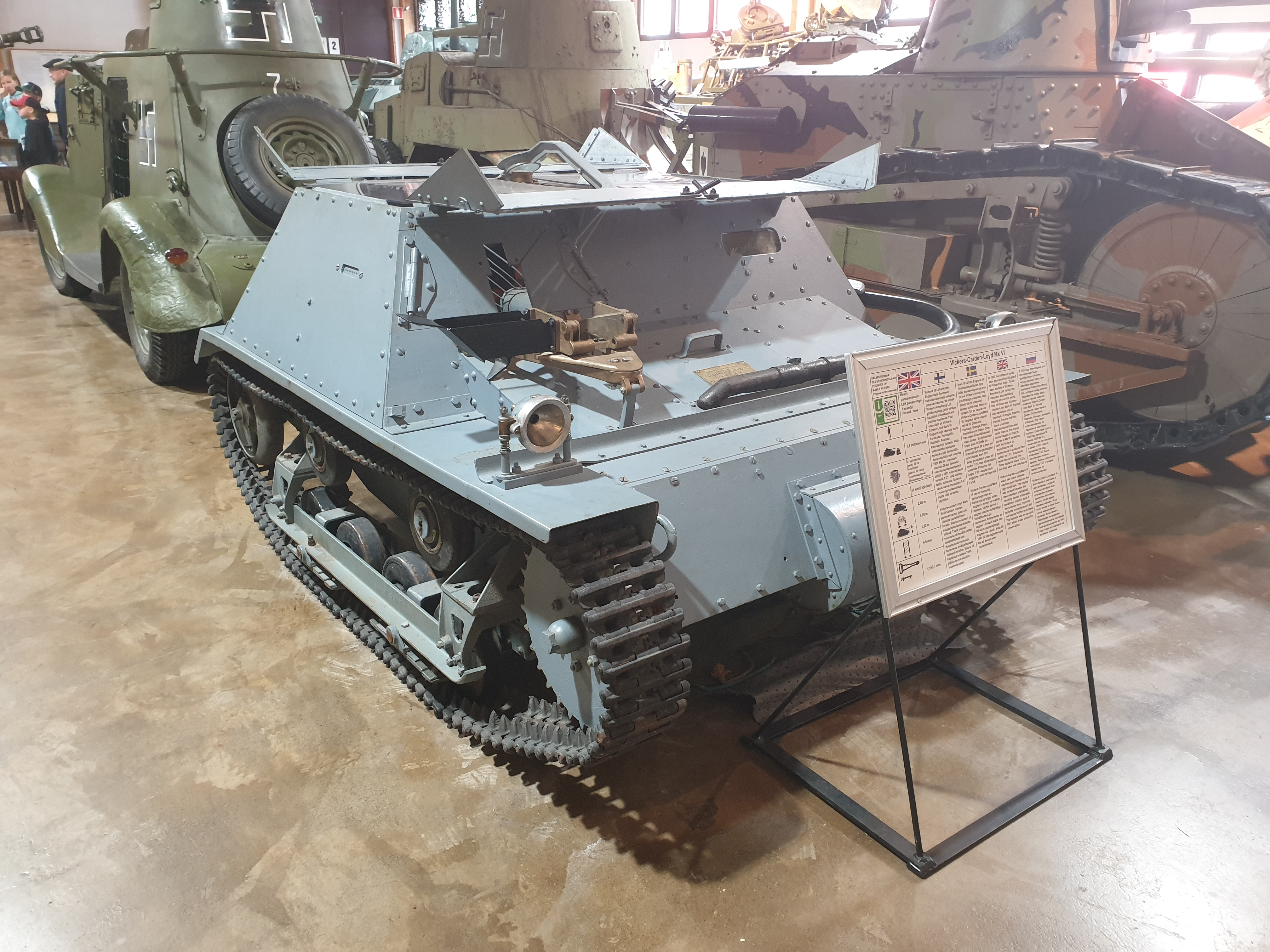 Vickers-Carden-Loyd Mk VI in Parola tank museum, Finland